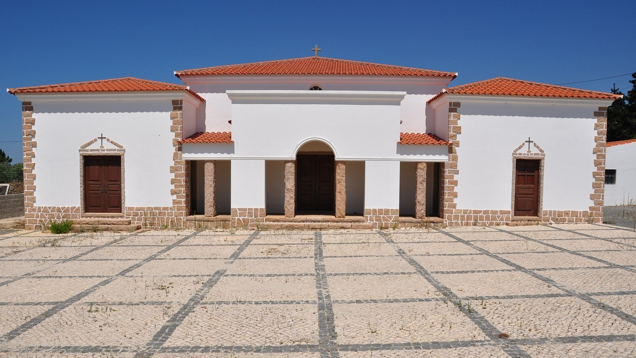 The church in Azóia (Portugal, Sintra municipality, freguesia Colares) is the westernmost church on the European continent. The church was opened in 1995.